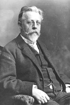 Viktor Urbantschitsch (1847-1921) Austrian doctors